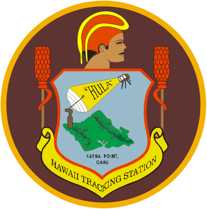 Emblem of Hawaii Tracking Station (HTS, callsign HULA) at Kaena Point, Oahu, Hawaii. A remote tracking station of the United States Air Force's Air Force Satellite Control Network operated by 22d Space Operations Squadron (22 SOPS) Detachment 4.